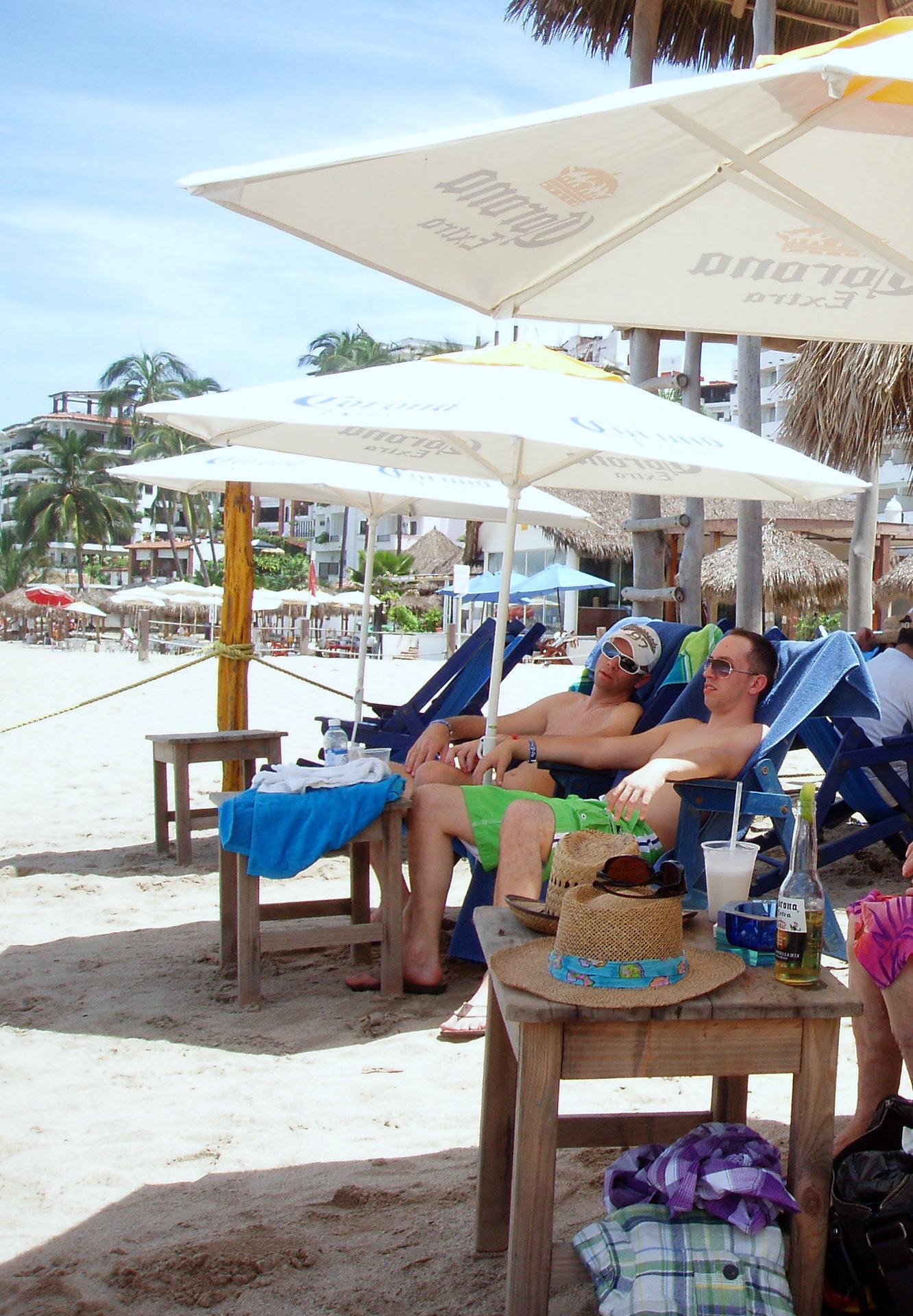 Gay Beach and hotel Blue Chairs in Puerto Vallarta